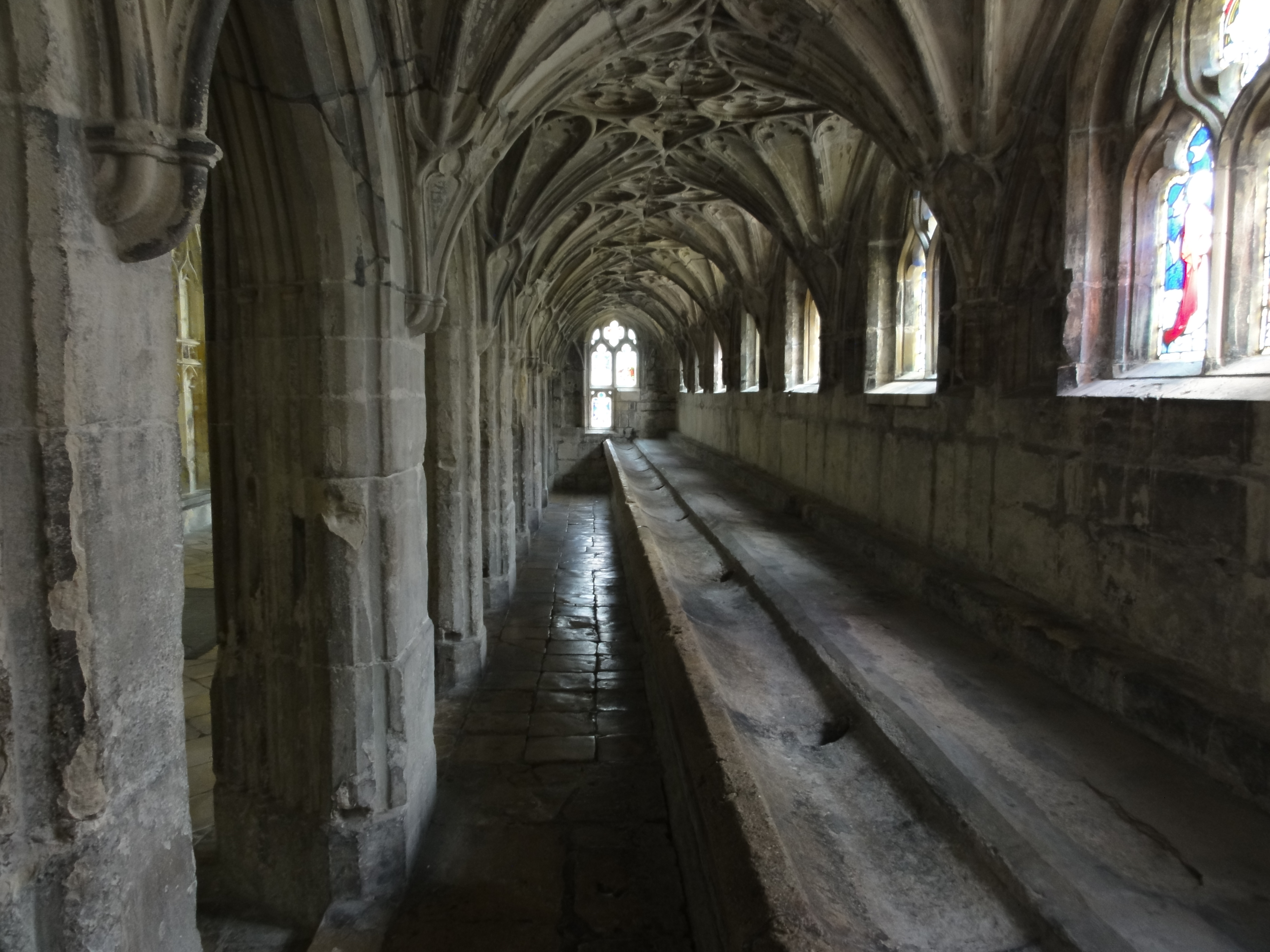 Known as the "Monk's Lavatory" this is a long shared basin that would have been used with fresh running water along the trough. There are multiple sink outlets.